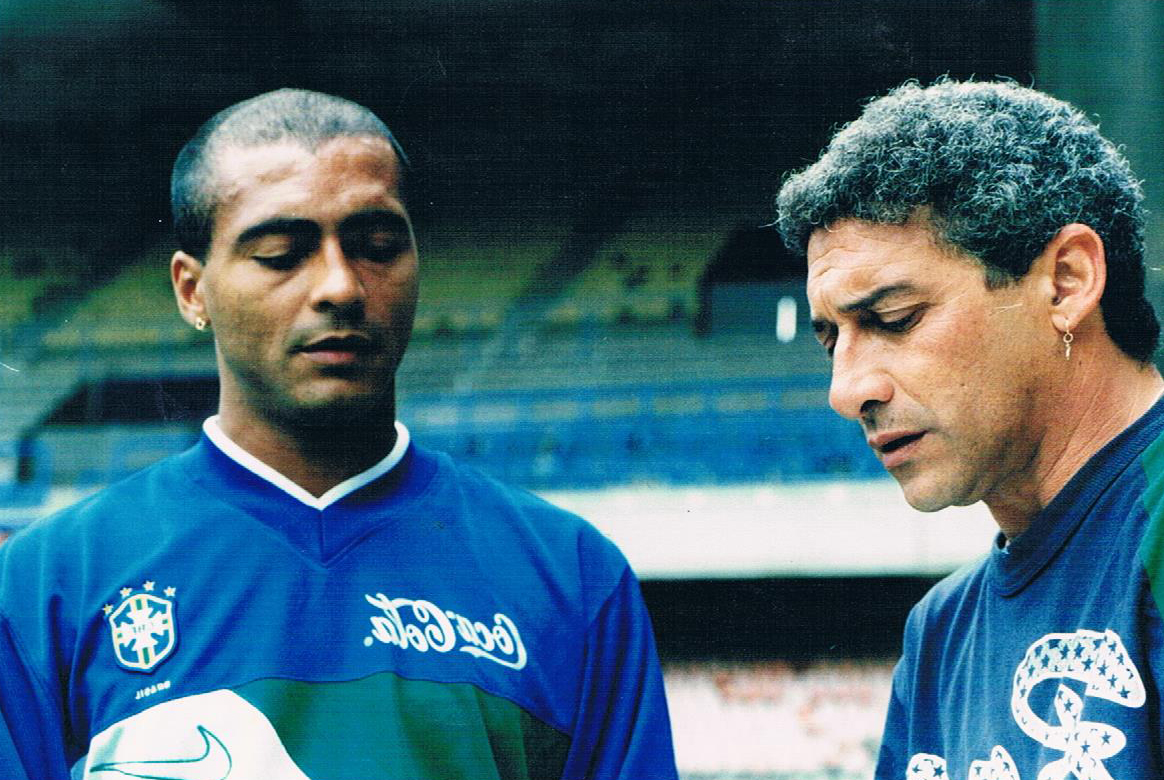 סלבה ברזילאי ורומאריו באימון נבחרת ברזיל